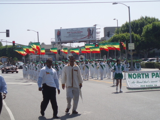 Ato Aberra Gebre and Ato Berhanu Asfaw (Mesob Restaurant), parade and festival organizers in front of the North Park Middle School Band. The Band members are decked with green and white costumes and are carrying Ethiopian flags.